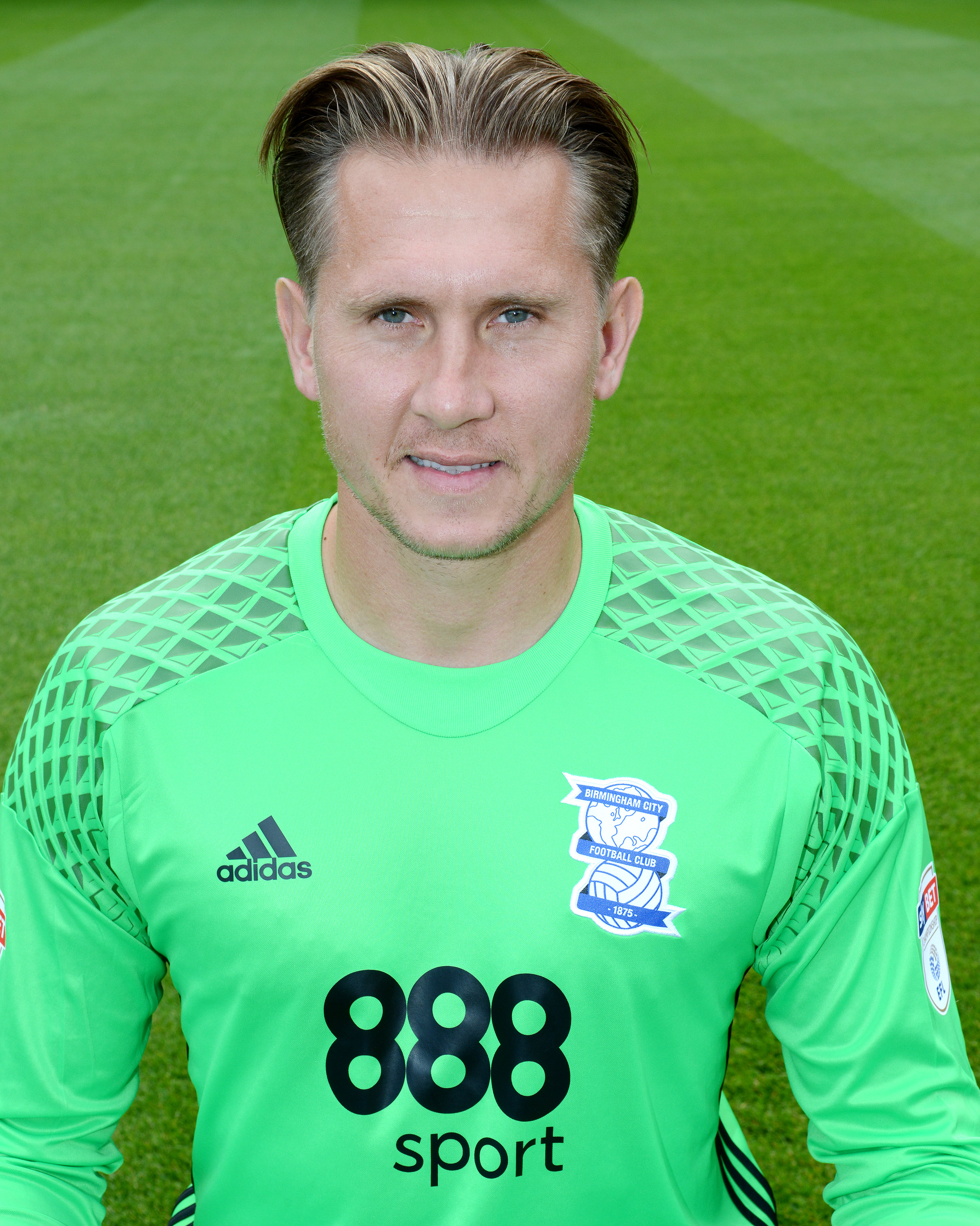 Tomasz Kuszczak in Birmingham City F.C. keeper kit, 2016